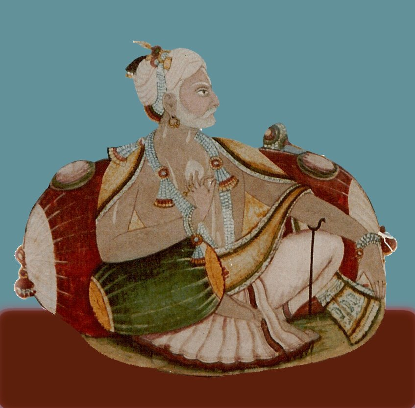 samarthshishya shree bhim swami tanjavarkar